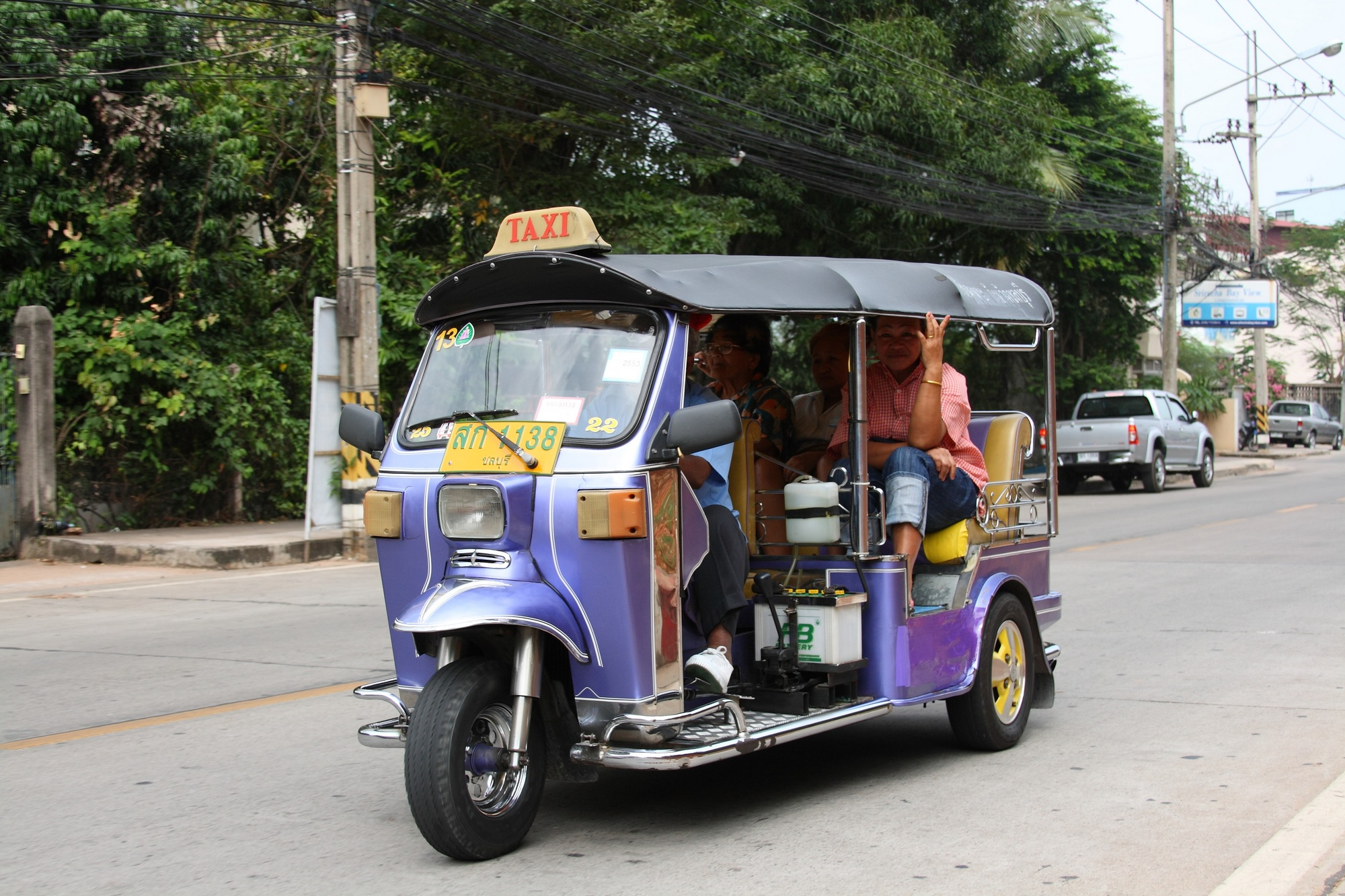 Tuk-tuk in Sri Racha, Chonburi province, Thailand